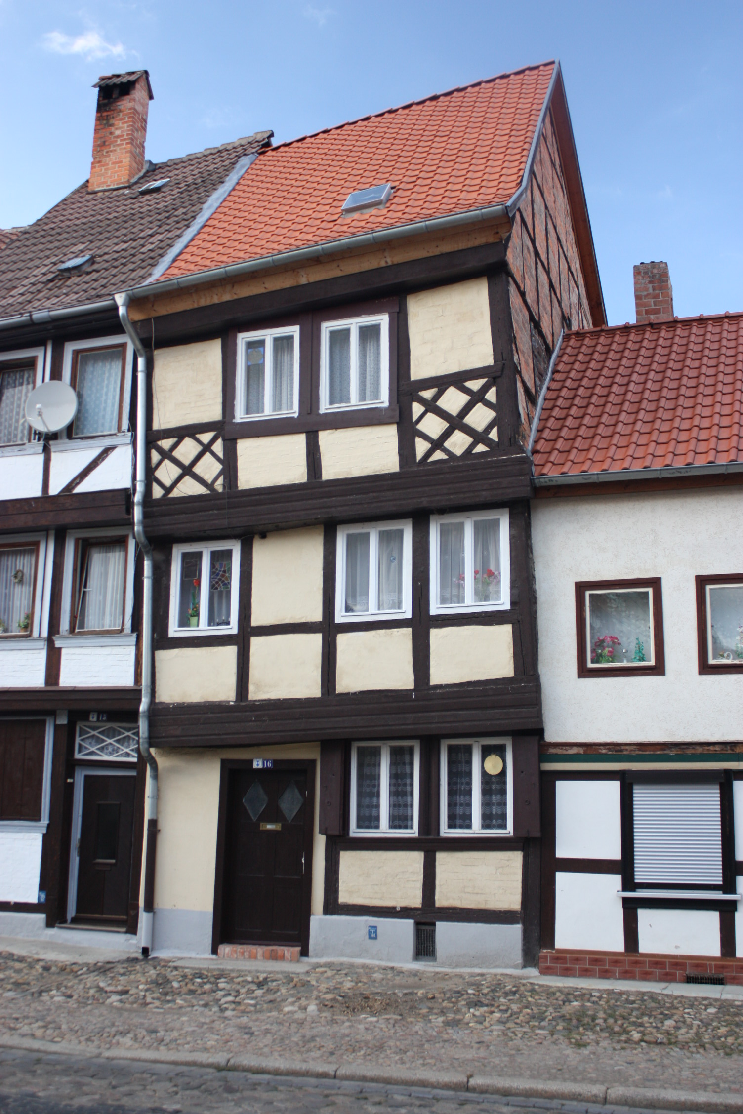 This is a photograph of an architectural monument.It is on the list of cultural monuments of Quedlinburg Augustinern 16 in Quedlinburg